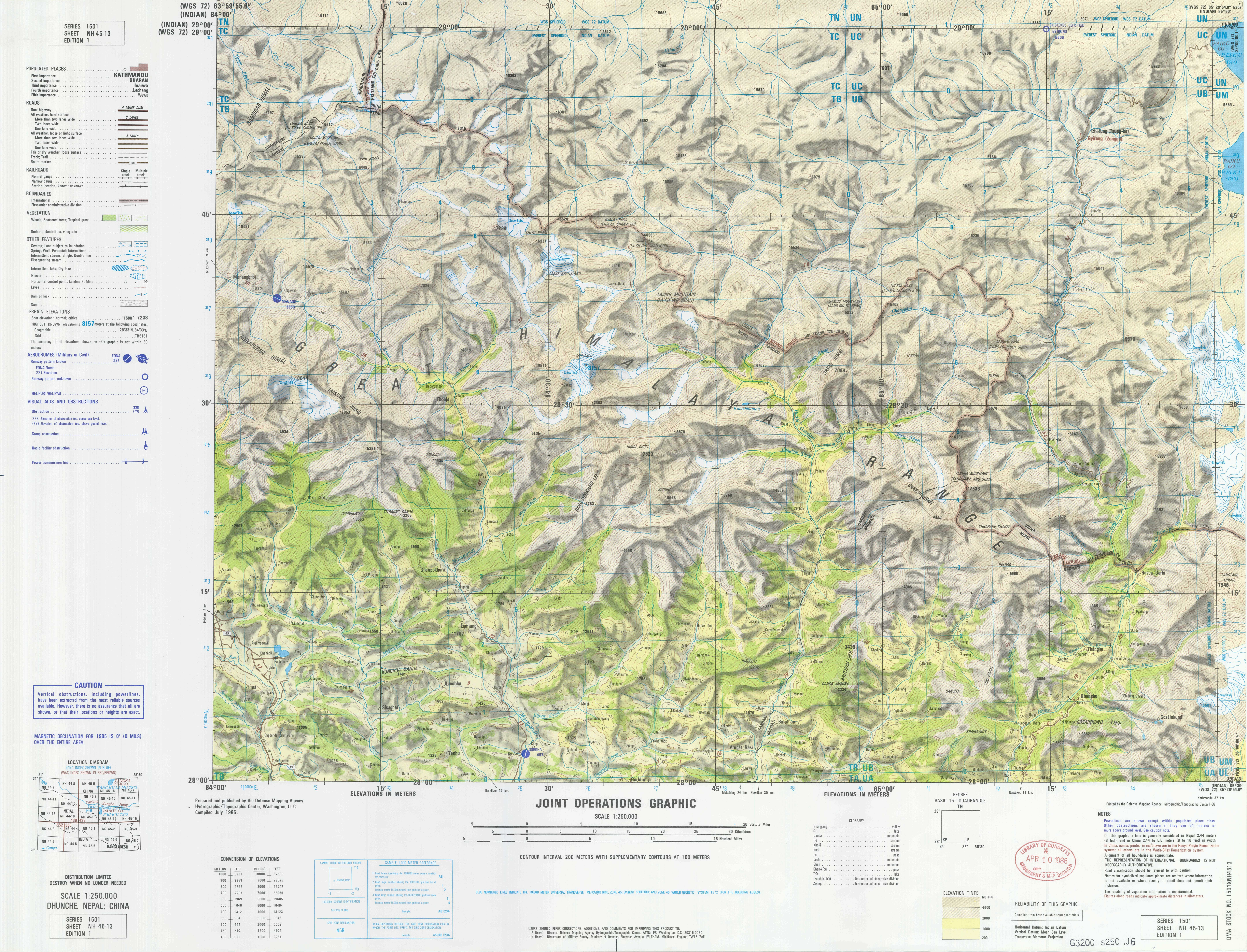 NH-45-13 Dhunche Nepal; China